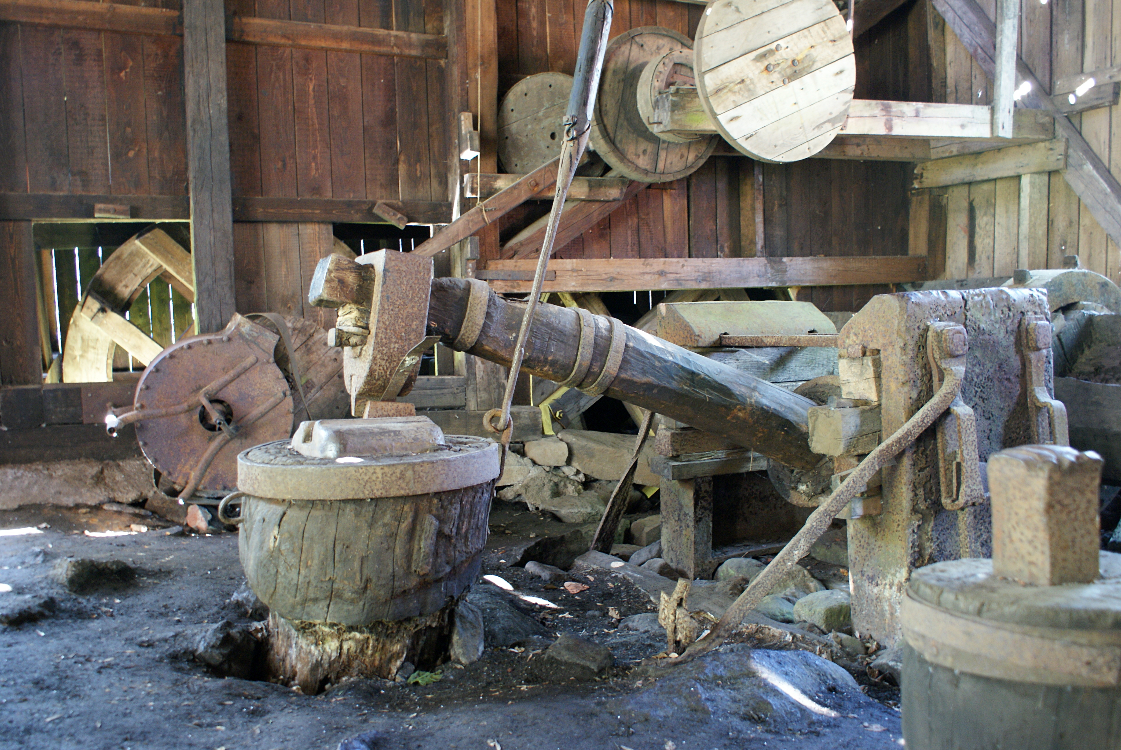 Water powered trip hammer. Vira bruk, Sweden.